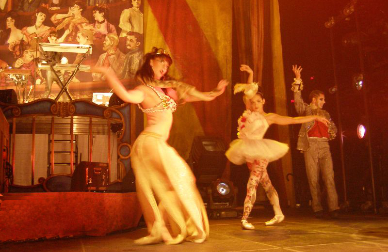 Circus-style performers at a Panic! at the Disco concert.